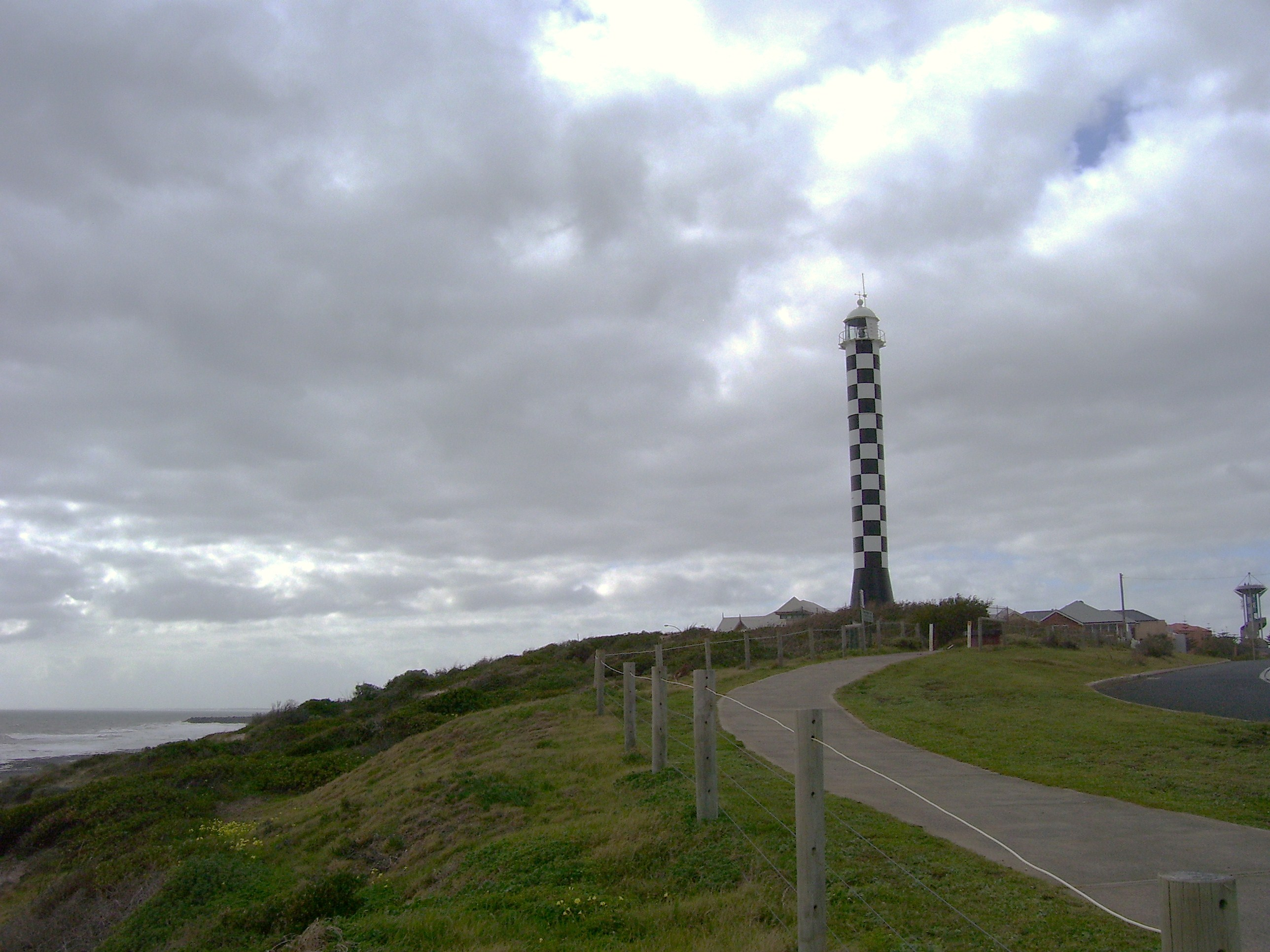 Bunbury Lighthouse, with the Marlston Hill lookout in the background (on the far right)